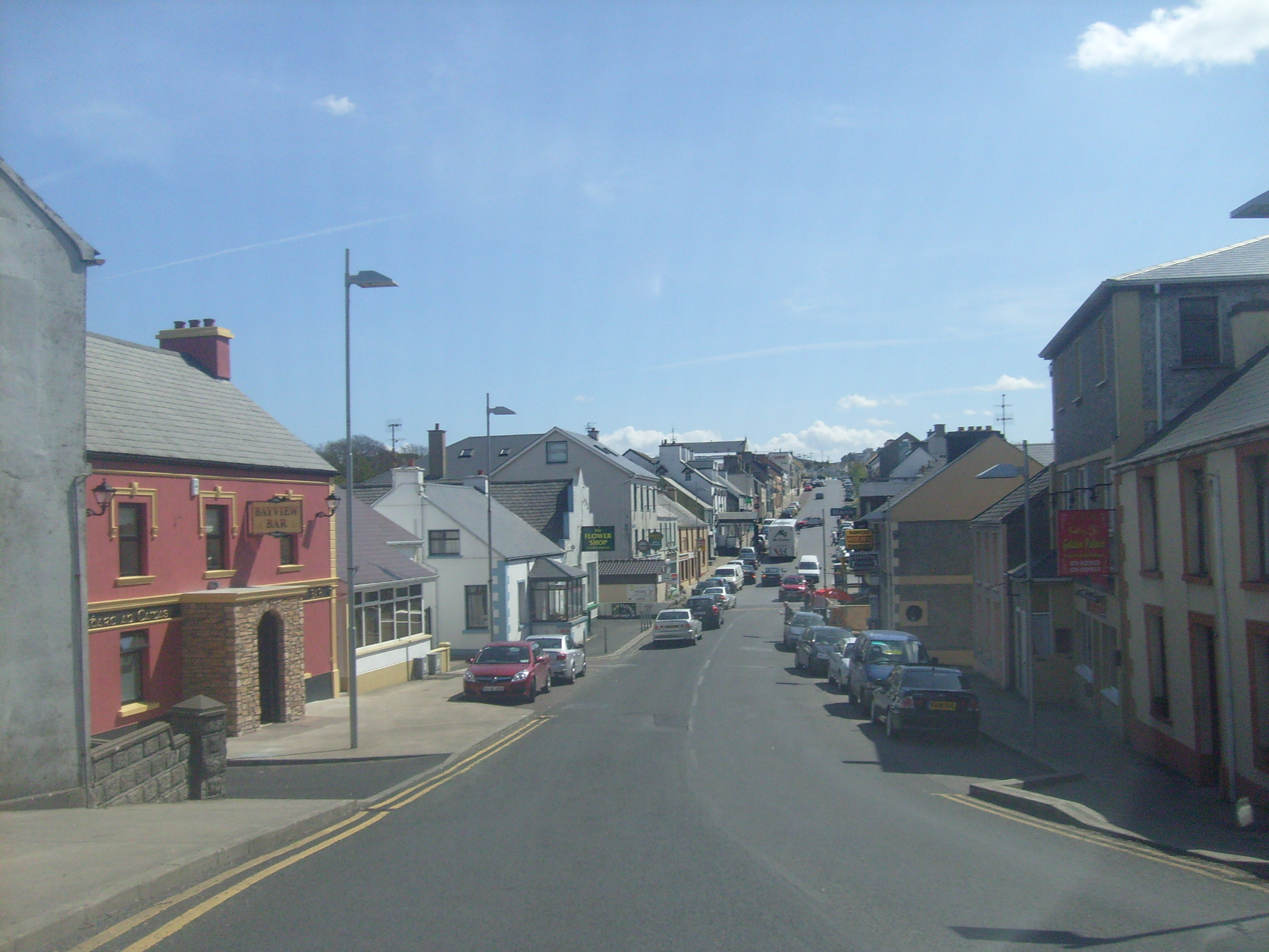 Dungloe Main street, Donegal, ÉIREGaeilge: Príomhshráid an Chlochán Léith, Co Dhún na nGall, Éire